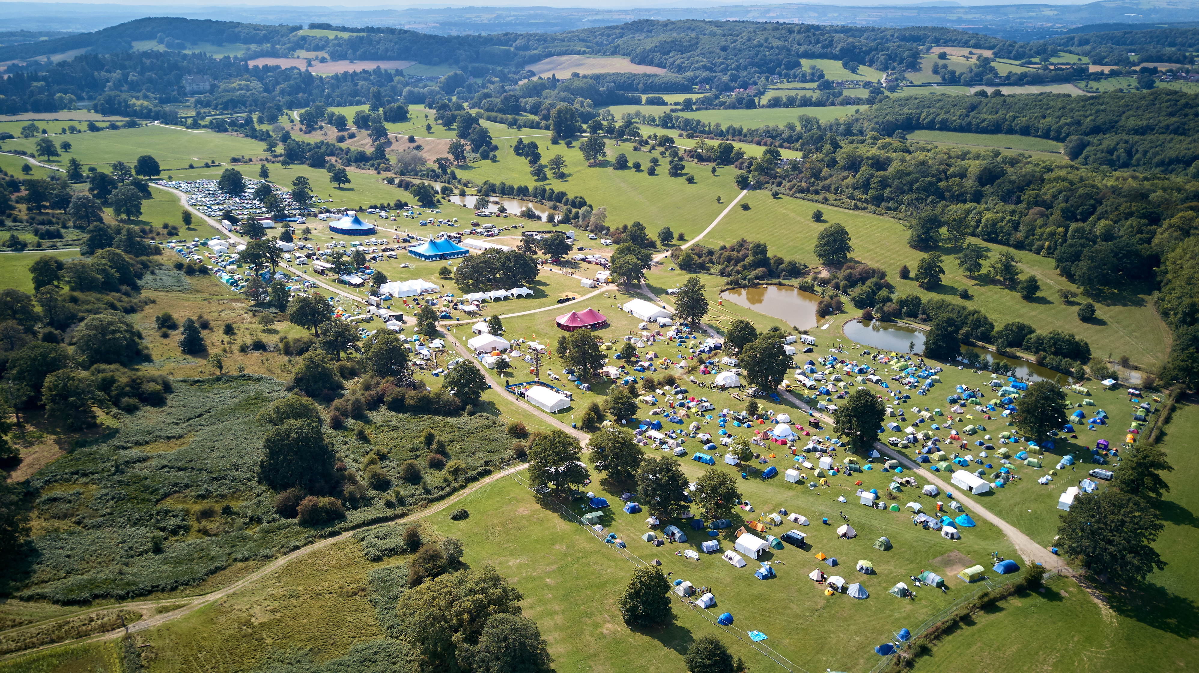 Aerial photo of the Electromagnetic Field 2018 technology-focused camping festival